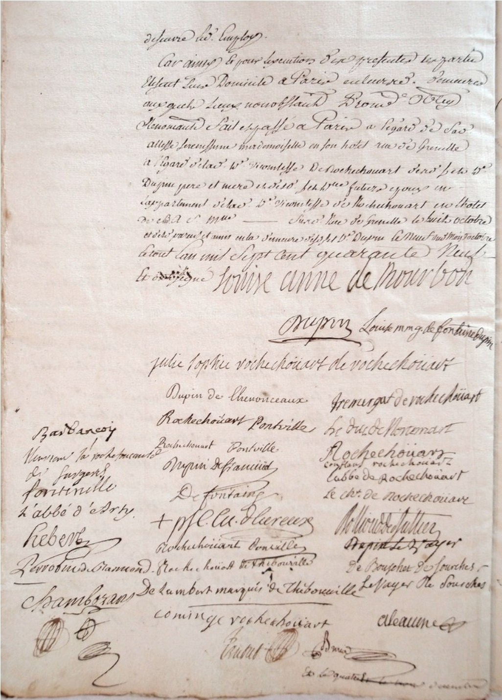 Last page of the marriage contract between Jacques-Armand Dupin de Chenonceaux (1727-1767), and Louise-Alexandrine-Julie de Rochechouart-Pontville (1730-1797) in Paris 8 October 1749 at Master Claude Aleaume (1700-1762), notary in Paris. The wedding is celebrated the next day, 9 October 1749 in the Saint-Sulpice church in Paris. This notarial act includes prestigious signatures including those of: Louise-Anne de Bourbon-Condé, Fontenelle, Claude Dupin, Louise Marie Magdeleine Guillaume de Fontaine, Jacques-Armand Dupin de Chenonceaux, Julie de Rochechouart-Pontville, Louis Dupin de Francueil and most members of Rochechouart's family. Jacques-Armand Dupin de Chenonceaux is the only son of financial Claude Dupin (1686-1769) and Louise Marie Madeleine Fontaine (1706-1799), owners of the Château de Chenonceau.